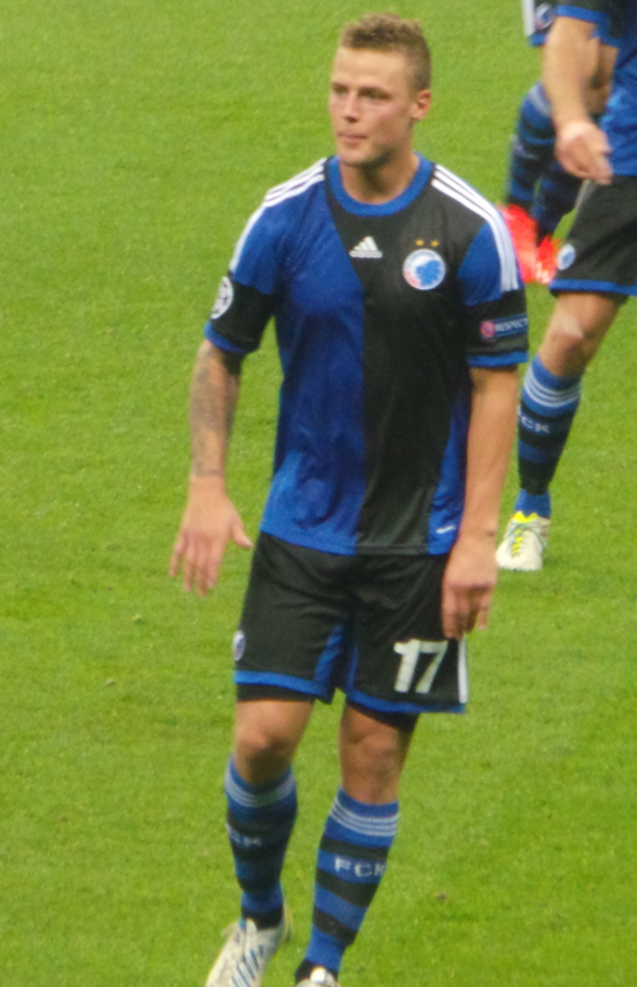 Ragnar Sigurðsson